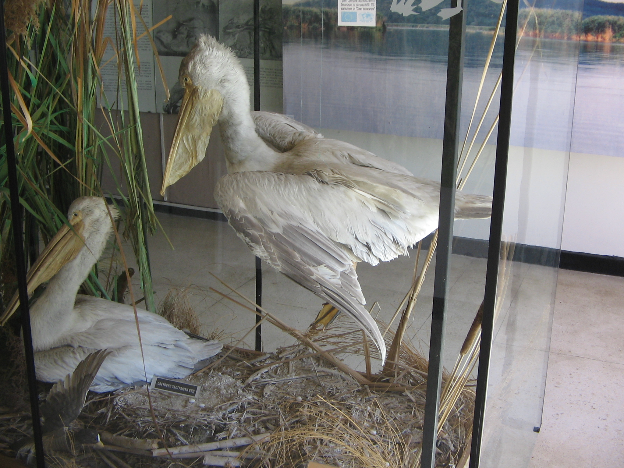 Stuffed pelicans in the museum of natural history in Srebarna, Bulgaria